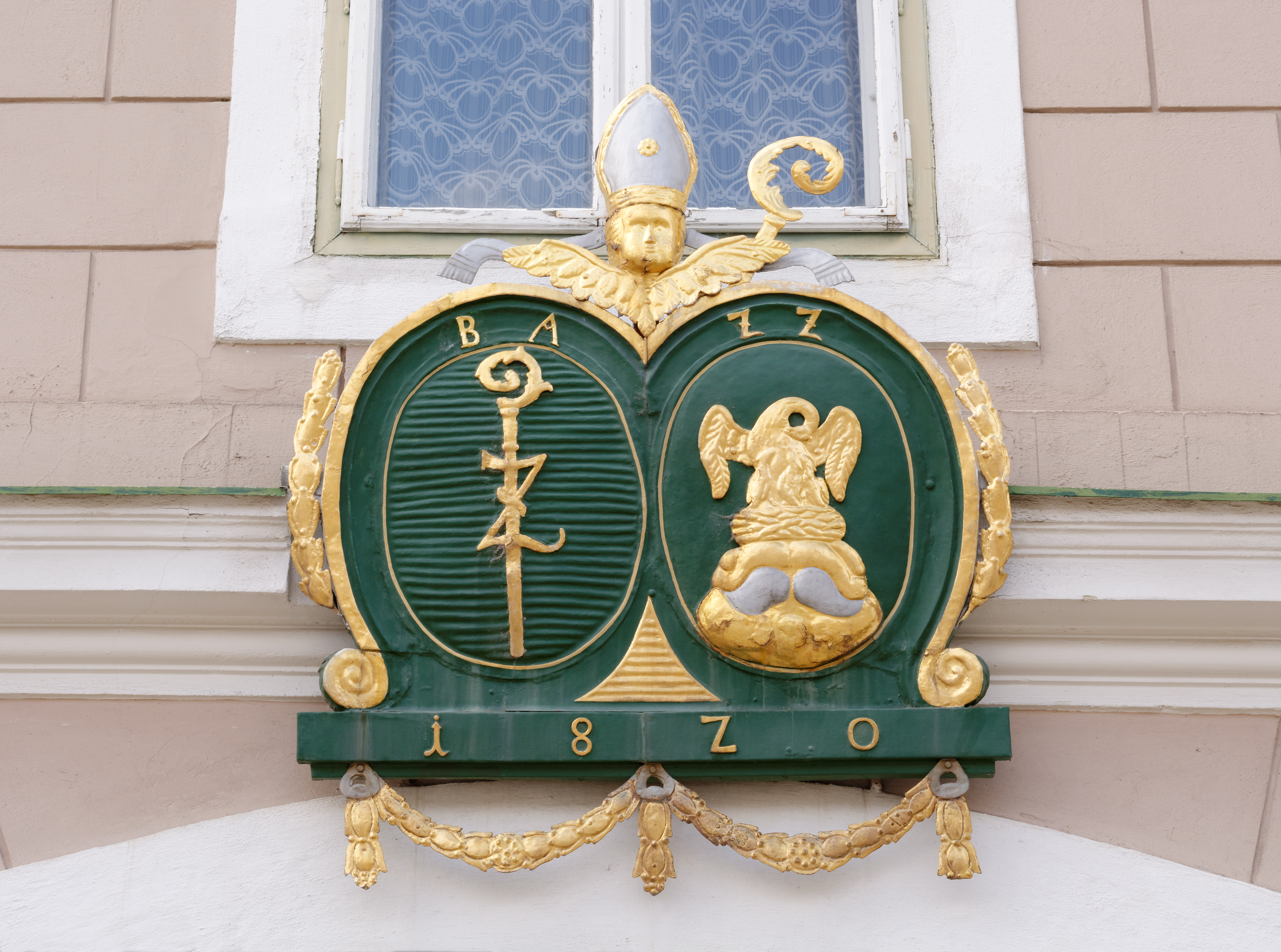 Coat of arms of abbot Berthold Gamerith, Zwettl monastery, above the entrance to the rectory at Zistersdorf, Lower Austria, Austria